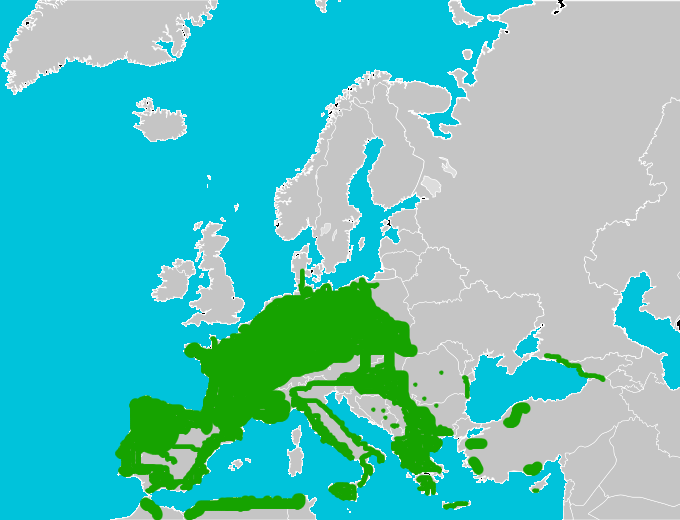 Distribution map of Short-toed Treecreeper